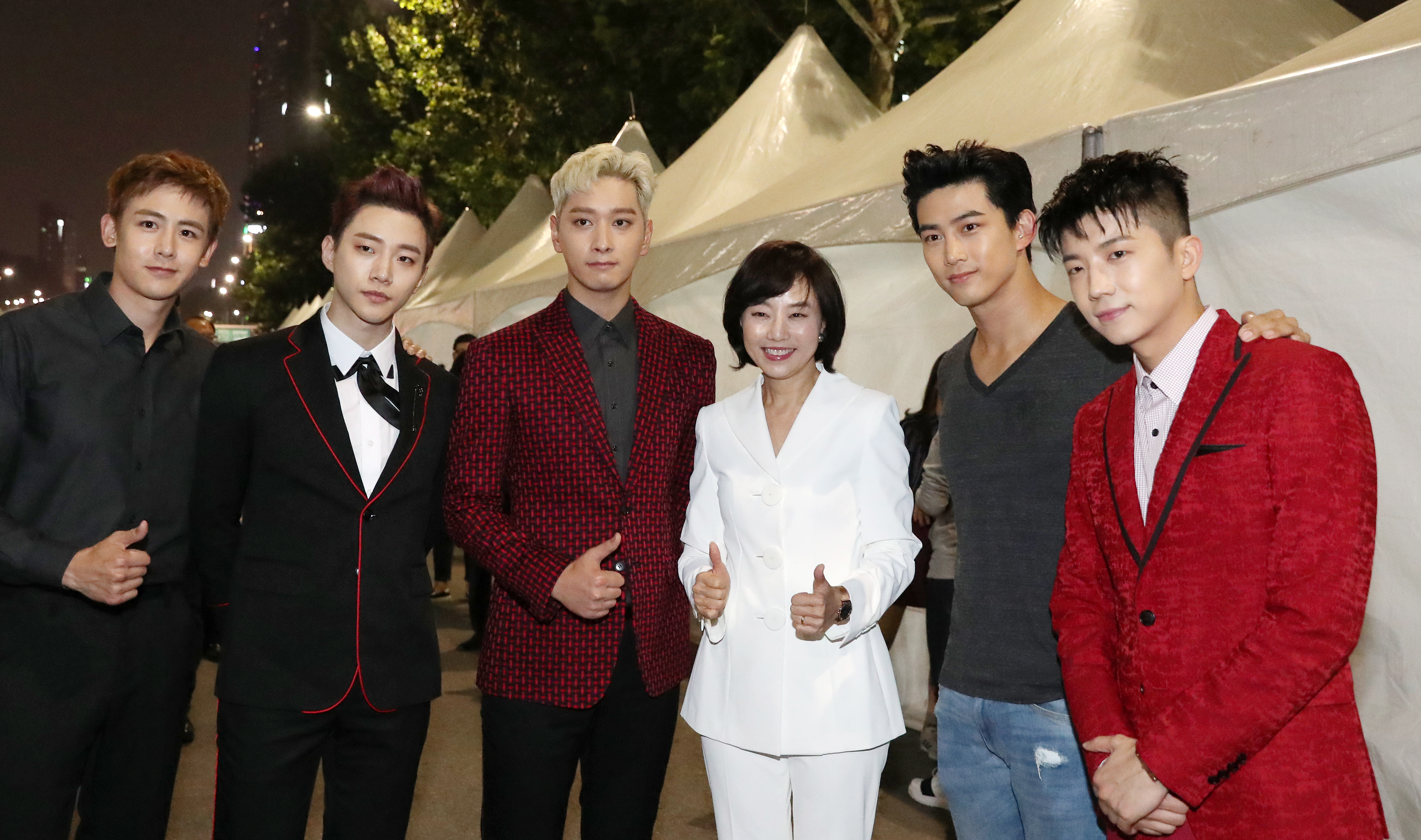 2PM at Korea Sale Festa, 30 September 2016